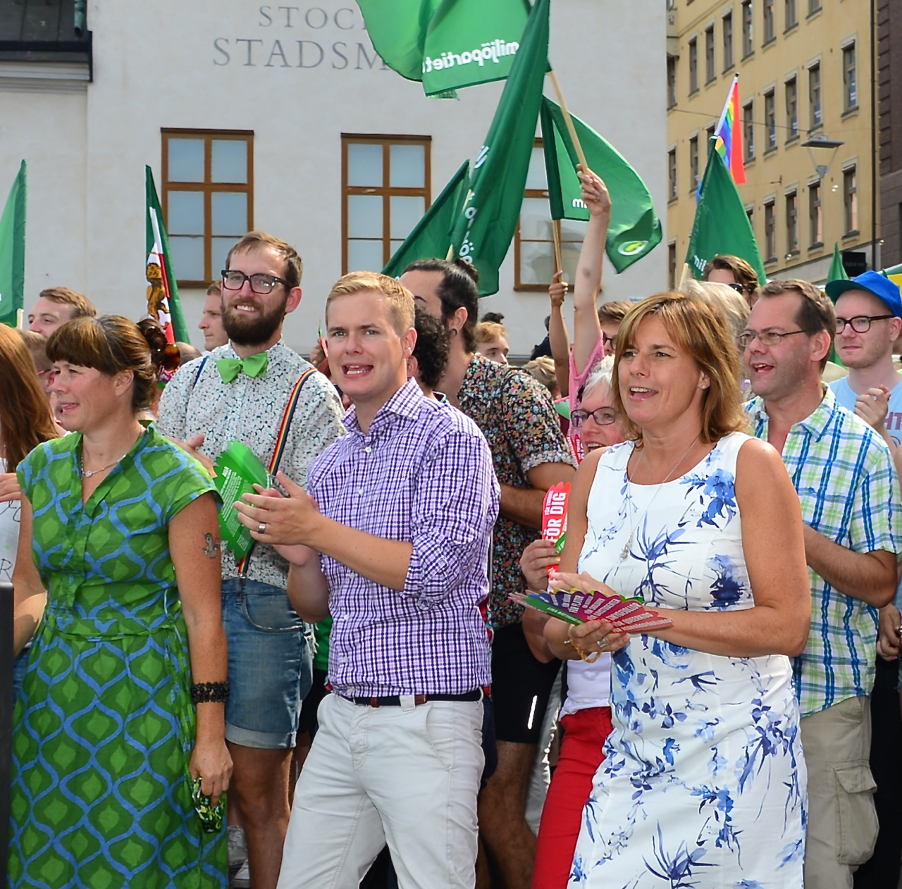 The Green Party in the final Pride Parade during Stockholm Pride in 2014. From left: Åsa Romson, Gustav Fridolin, Isabella Lövin, Ulf Holm.